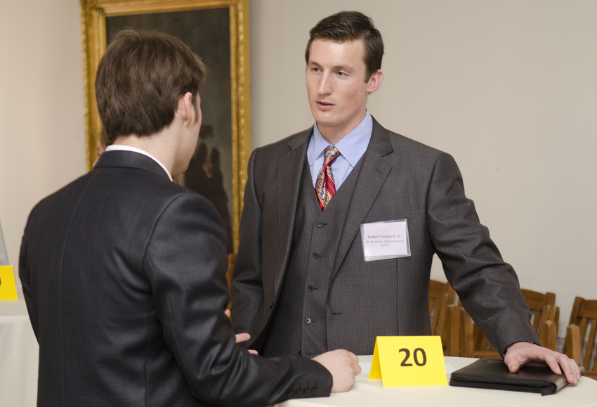 Alumni networking program, Nazareth College School of Management.